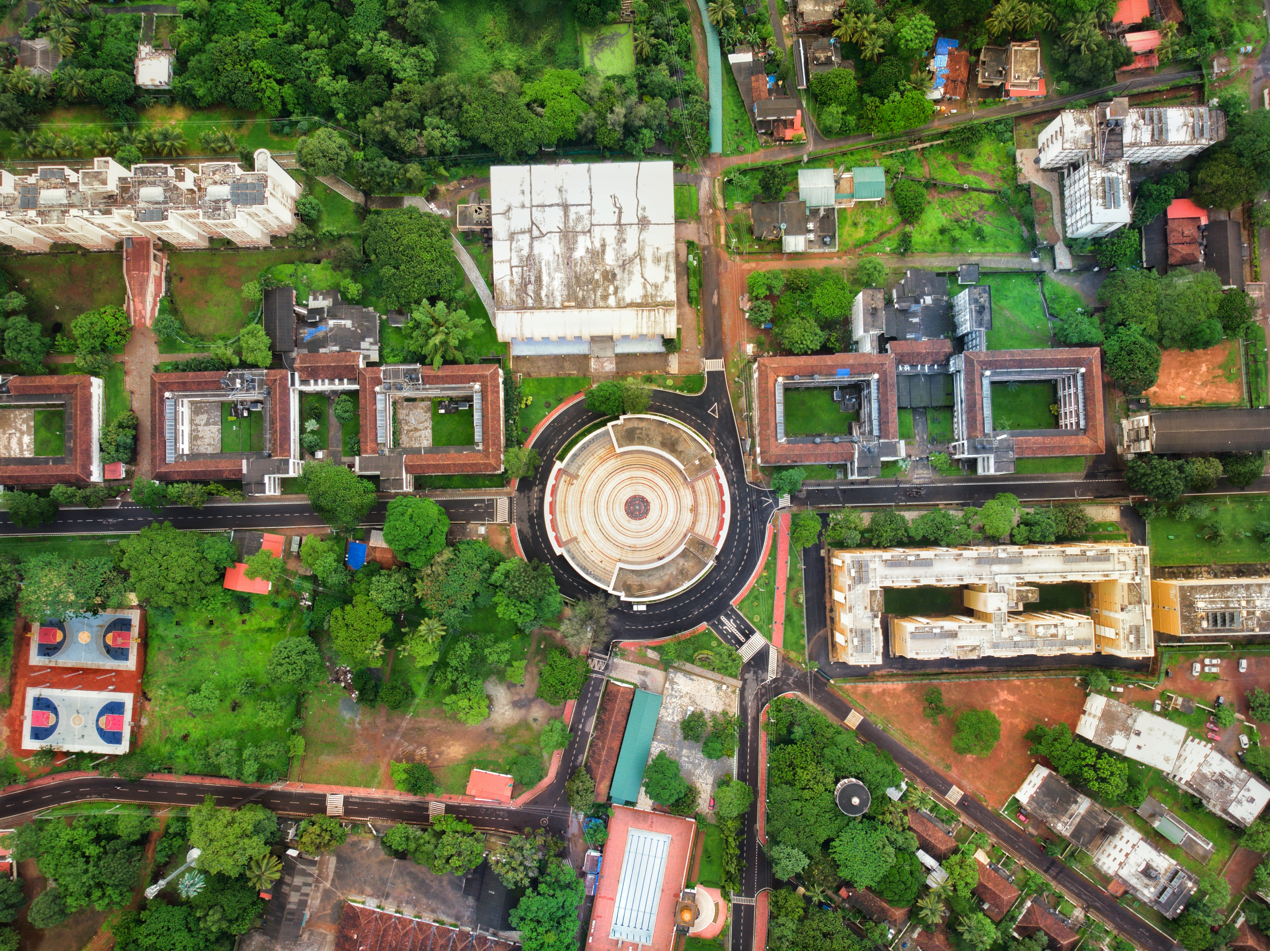 Aerial shot of Student Plaza earlier known as KC (Kamath Circle)